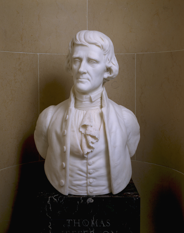 Bust of Thomas Jefferson from the Senate Vice Presidential Bust Collection Marble, 1888 Overall (bust) measurement Height: 29.5 inches (74.9 cm) Width: 20 inches (50.8 cm) Depth: 16.13 inches (41 cm) Unsigned Cat. no. 22.00002.000